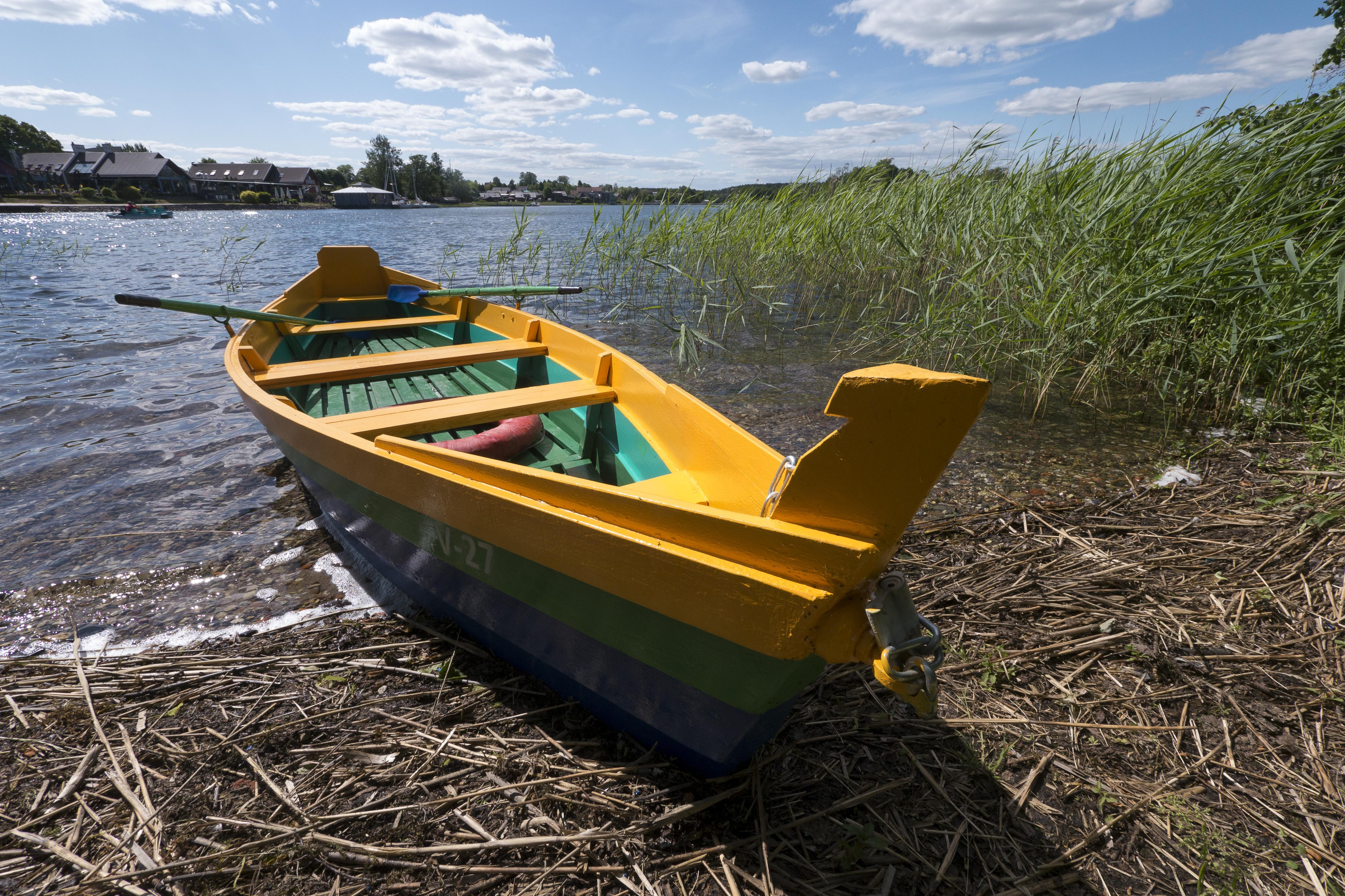 Trakai, Lithuania